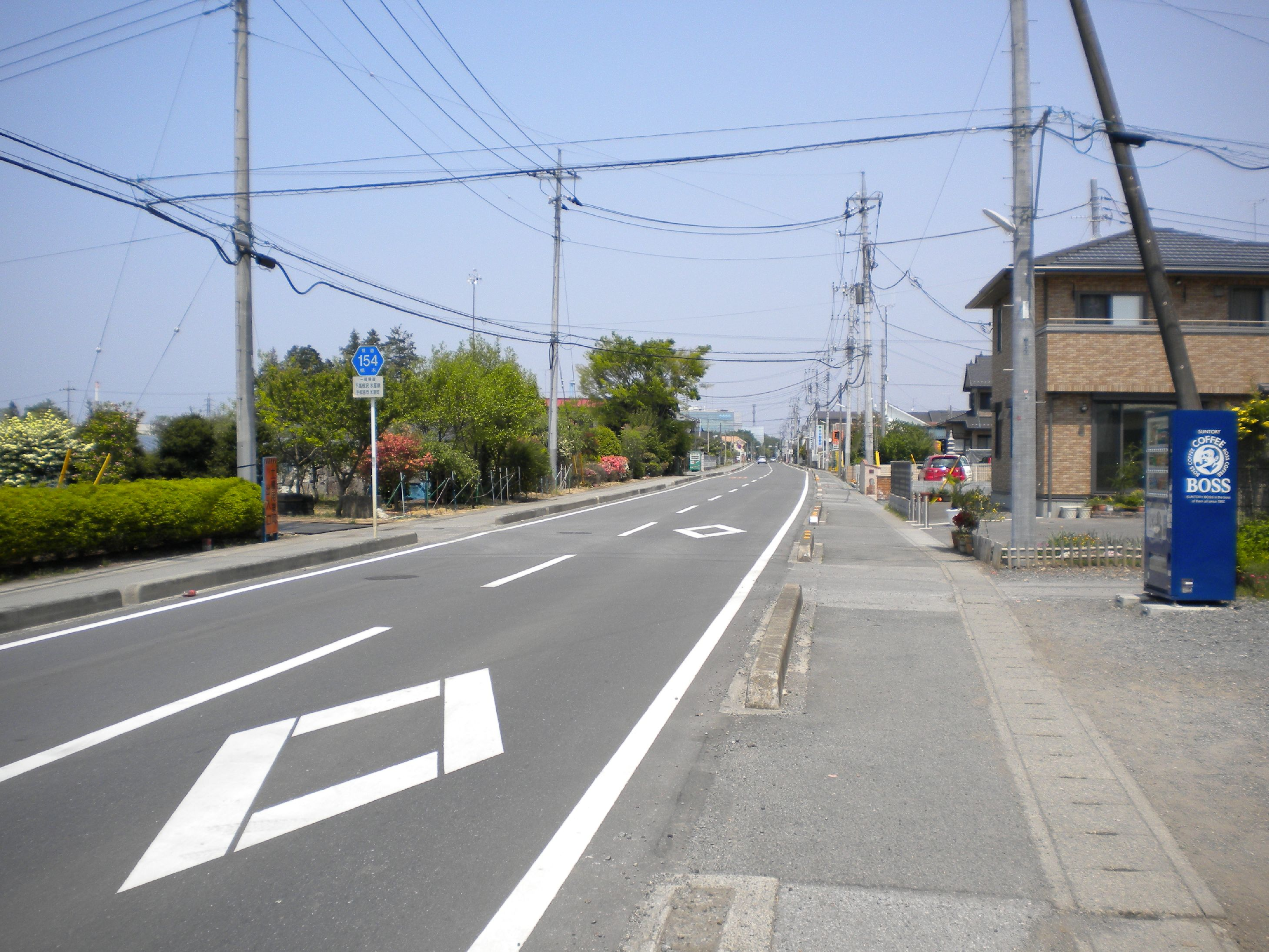 Tochigi prefectural road No.154 on Utsunomiya city